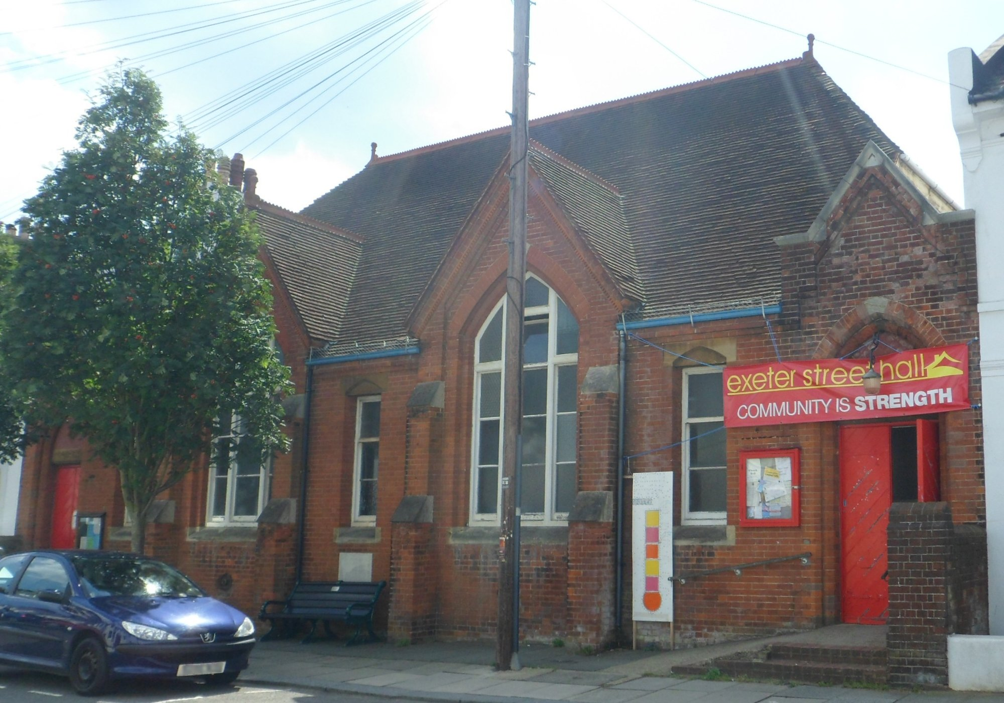 Exeter Street Hall, Exeter Street, Prestonville, City of Brighton and Hove, England. Built in 1884 as the church hall of St Luke's Church.